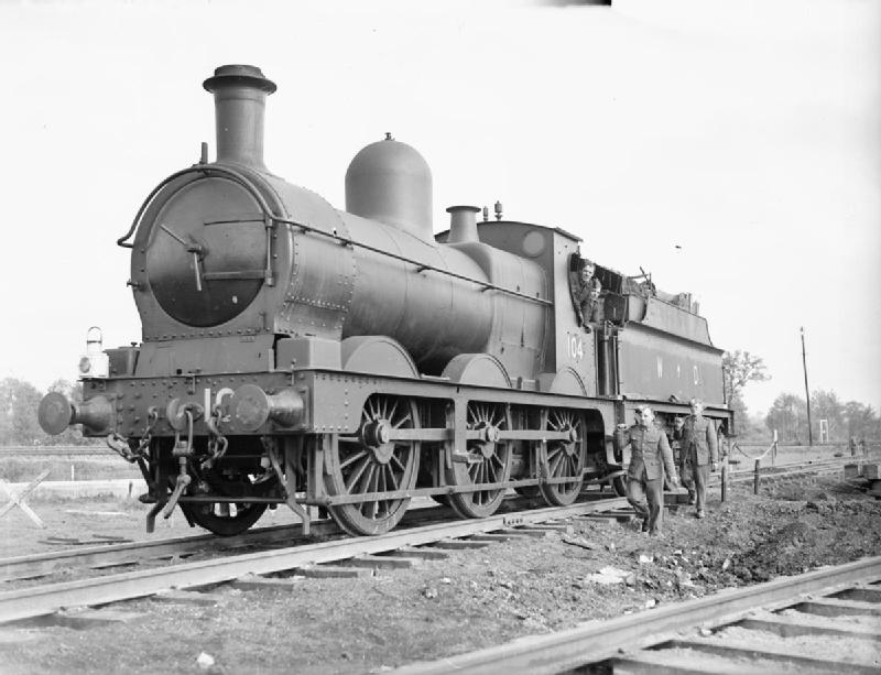 The British Army in France 1939-40 A War Department railway locomotive at the Royal Engineers base supply park depot at Rennes, November 1939.